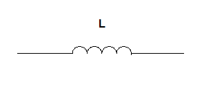 A lumped component inductor